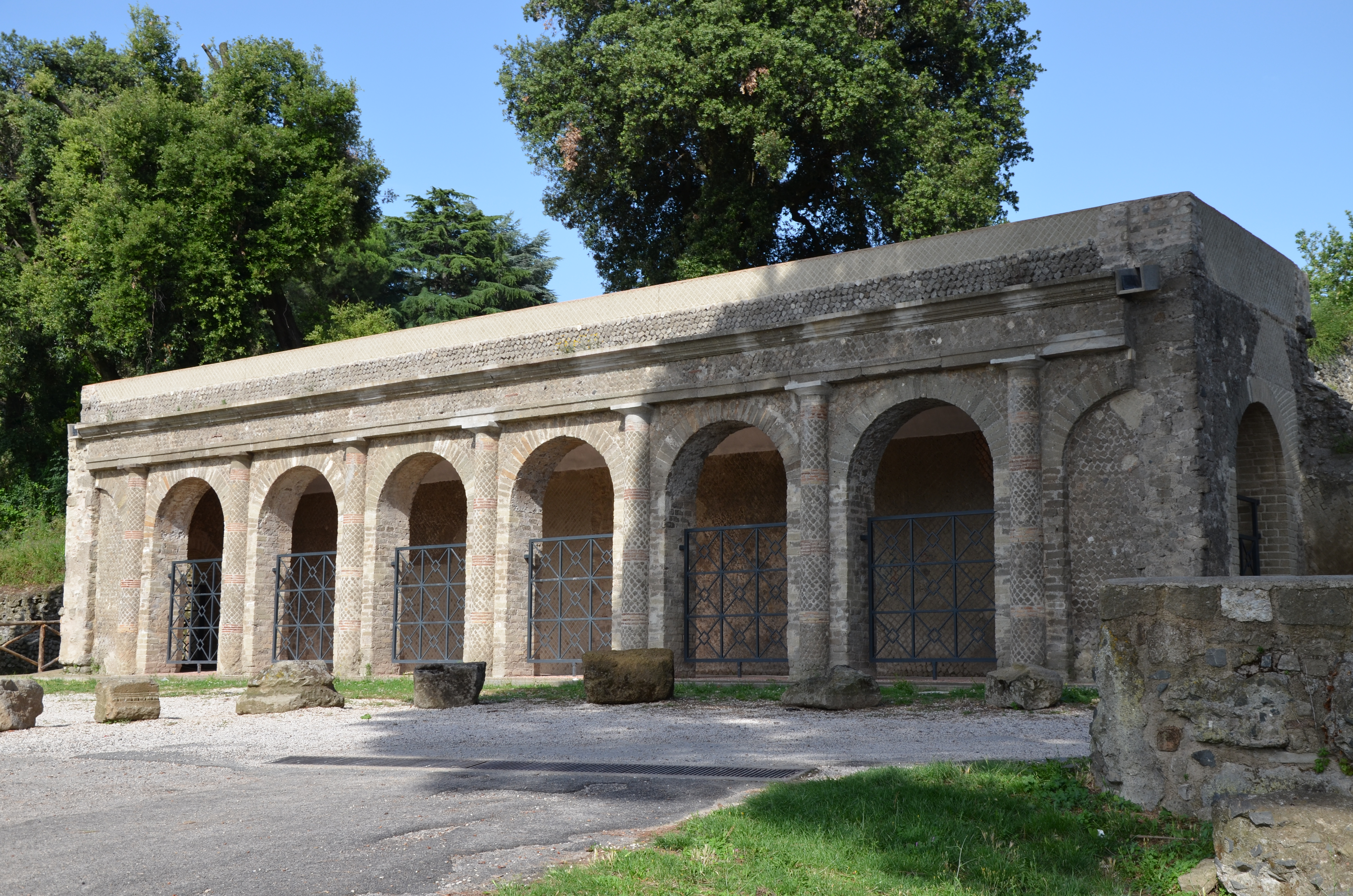 The portico of the Sanctuary of Juno Sospita at Lanuvium, Lanuvio, Italy